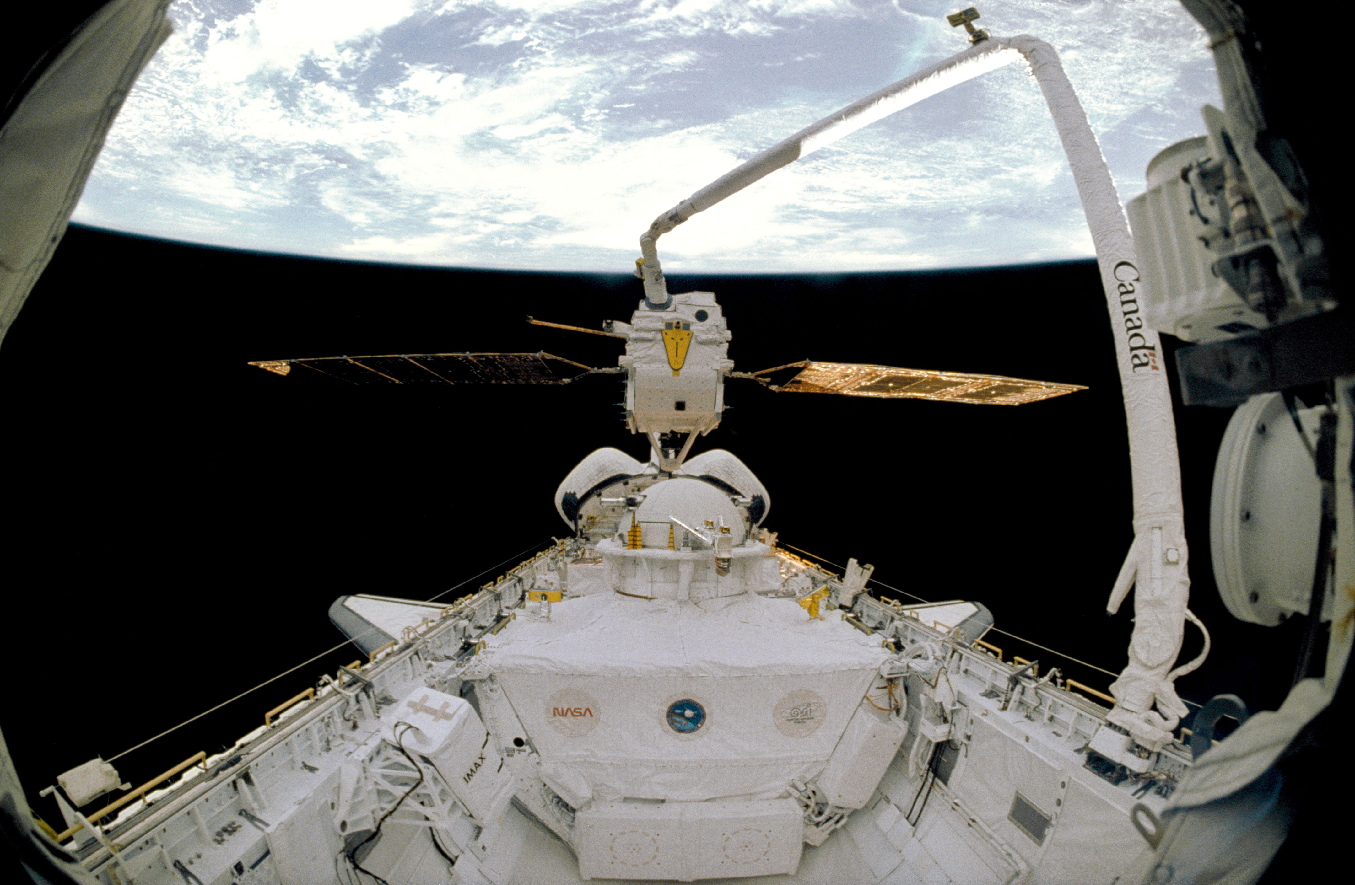 EURECA deployment during STS-46. STS-46 European Retrievable Carrier 1L (EURECA-1L) satellite with solar arrays extended, is grappled by the remote manipulator system (RMS) end effector and is positioned above the payload bay (PLB) of Atlantis, Orbiter Vehicle (OV) 104 during pre-deployment activities. In the foreground the IMAX Cargo Bay Camera (ICBC) mounted on Small Payloads Accomodations (SPA) getaway special (GAS) beam interface appears on the starboard wall and the stowed Tethered Satellite System 1 (TSS-1) satellite mounted in the satellite support assembly (SSA) on the unpressurized spacelab (SL) pallet (center). The scene is backdropped by the Earth's limb. A 16mm lens gives this 35mm frame a "fish-eye" effect.